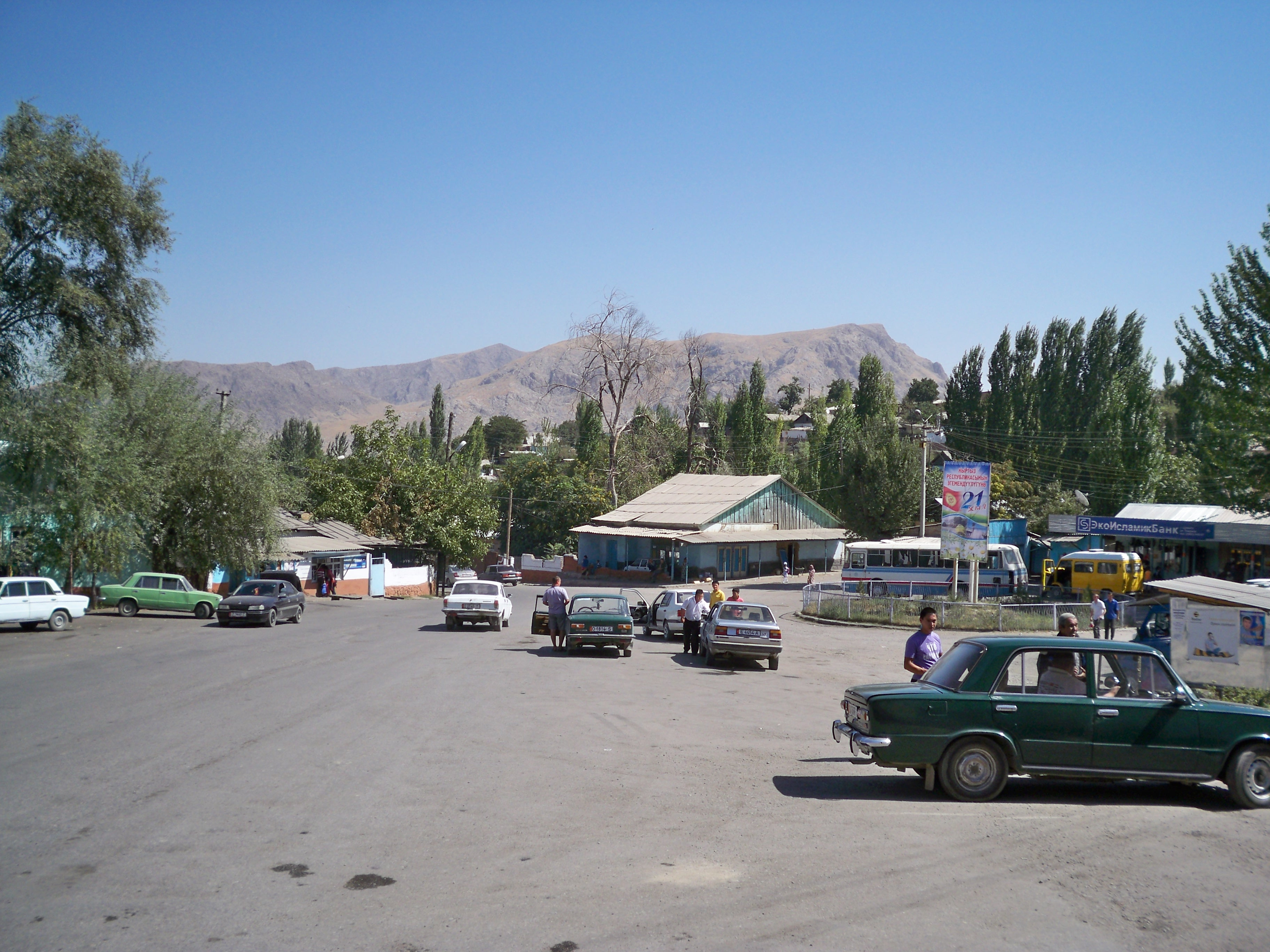 General view of Sulyukta.